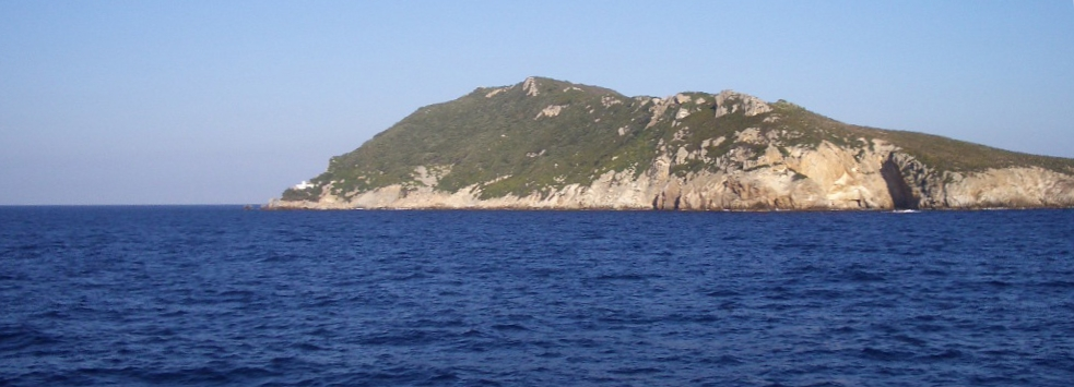 Zannone